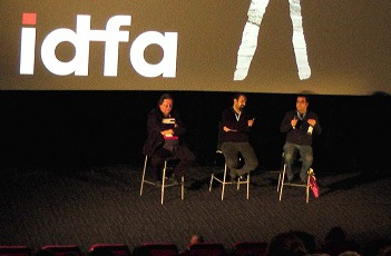 Maziar Bahari, Persian-Canadian journalist and filmmaker at the world premiere of "Forced Confessions", International Documentary Film Festival Amsterdam, Nov. 2012 - Photo: Persian Dutch Network